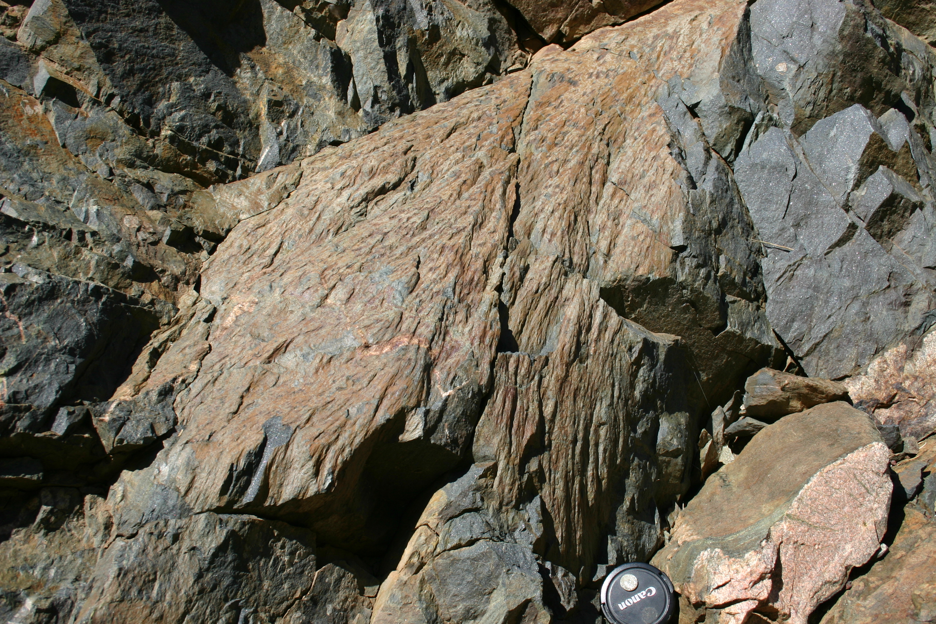 Shatter cones in the Santa Fe impact structure near Santa Fe, NM